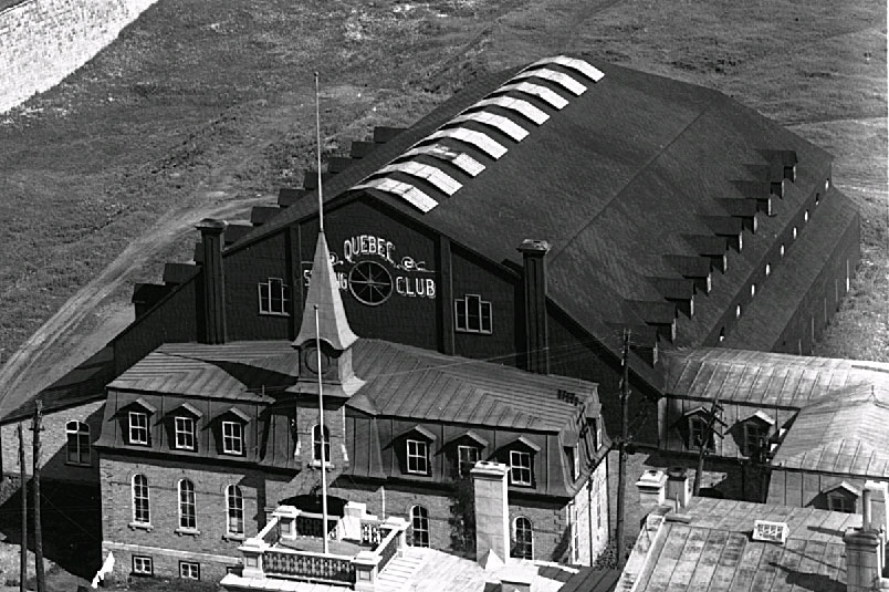 View of Quebec Skating Rink from Quebec City Parliament Buildings. Enlargement from photograph designated 'VIEW-4327.A' by Musee McCord.